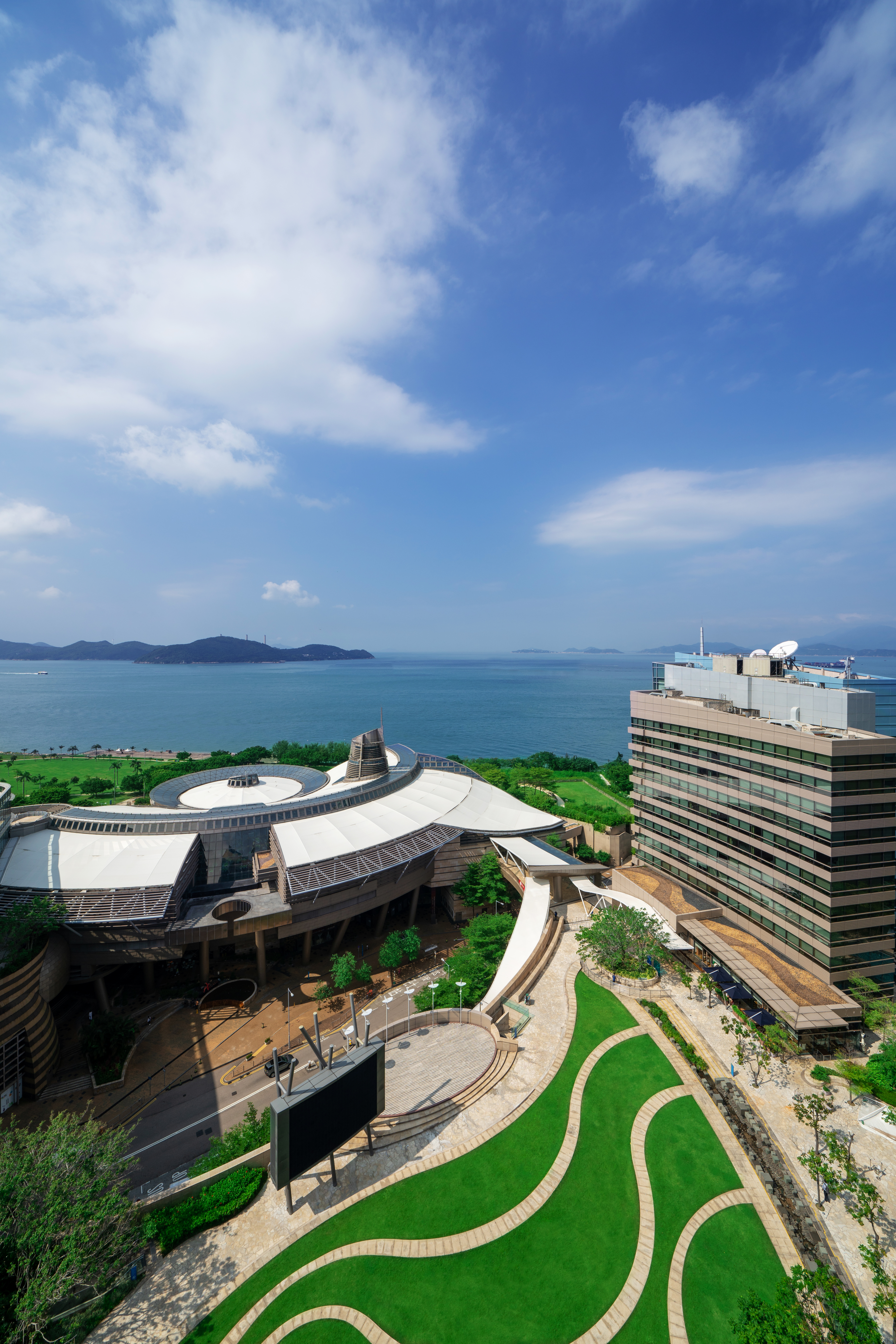 Cyberport is a digital tech hub in Hong Kong with over 1.300 digital and technology companies.